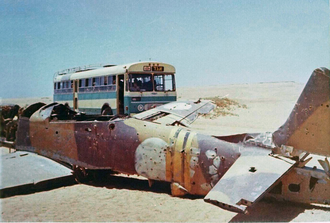 A Israel Air Force North Amercian P-51D Mustang at Ras Natsrani, Sinai, circa 1970. This was the plane of Lieutenant Yonatan Etkes from the "Flying Wing" squadron. He took off from Tel Nof airfield in P-51D (s/n 73) on 2 November 1956 to attack an Egyptian camp at Ras Natsrani. He was hit at ca 12:30h local time and made an emergency landing at the beach of Ras Natsrani. The Mustang flipped over, but wounded Lt. Etkes managed to get out of the plane. He was captured and later returned to Isarel. The plane was left untouched until the 1967 war, when Israli reservists turned it over. Its final fate is unknown.